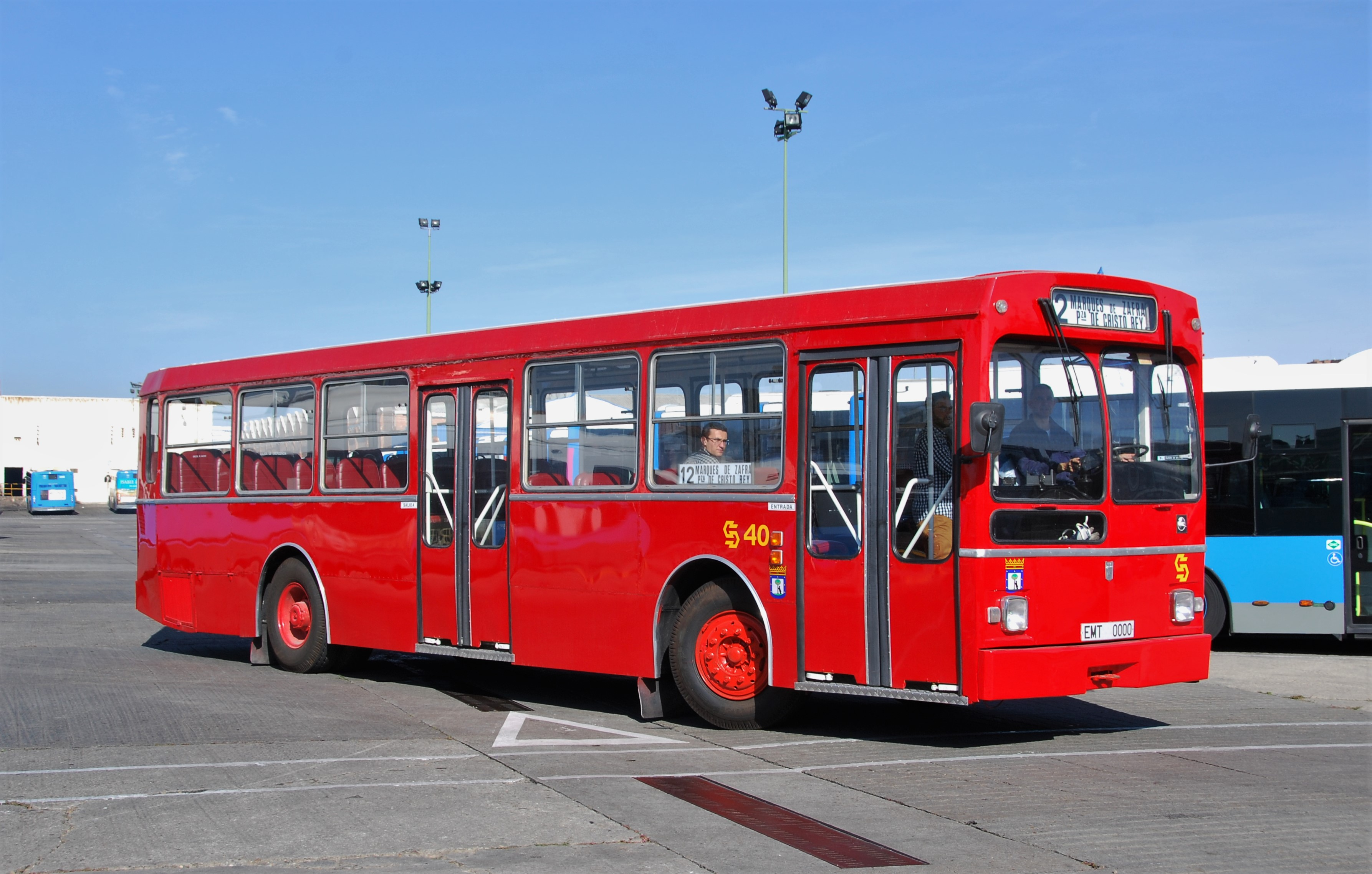 The Pegaso 6050 bus preserved by the Madrid EMT and the Asociación de Amigos de la EMT y del Autobús, in Fuencarral garage.